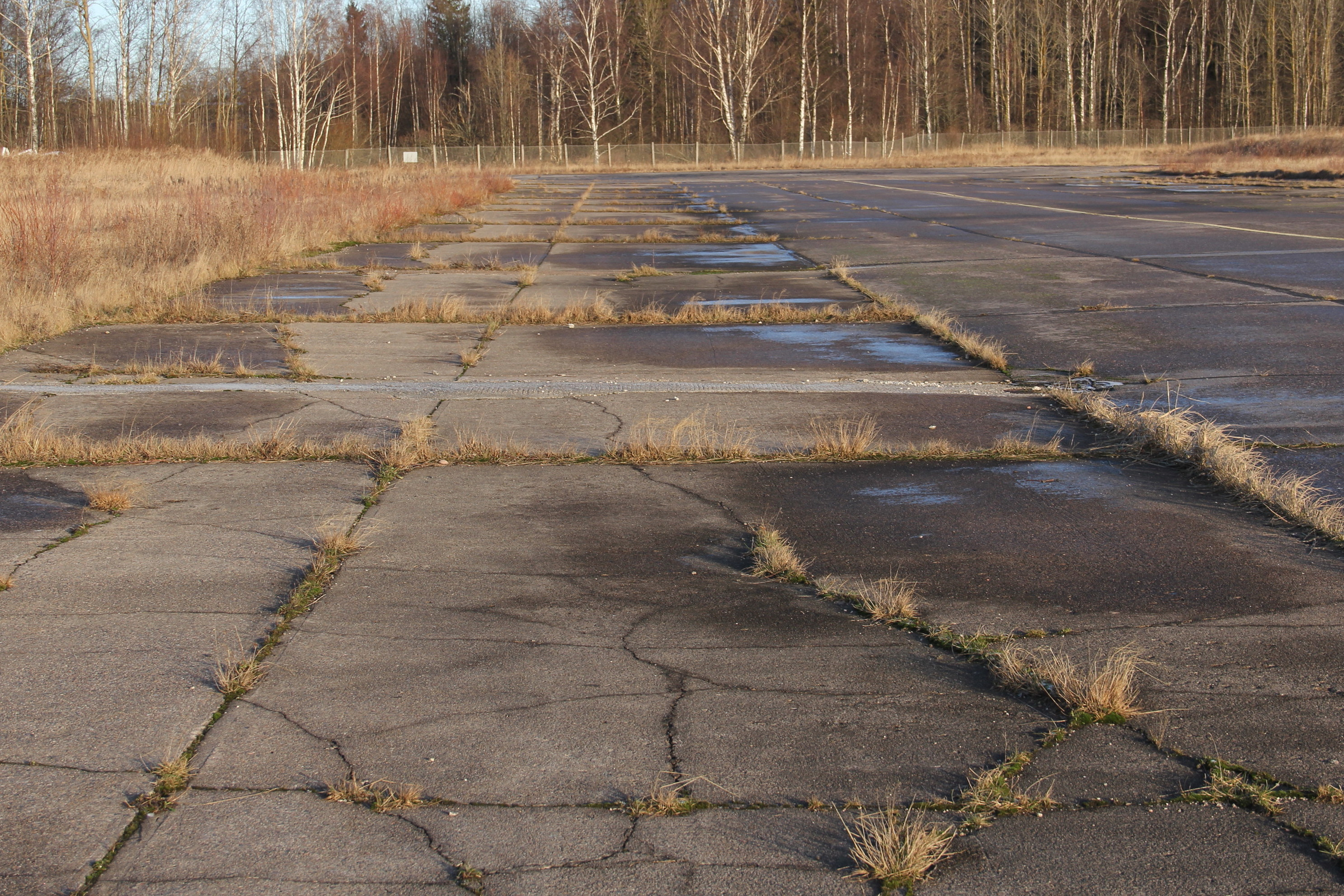 Helsinki-Malmi airport, Helsinki, Finland. – Deprecated old runway 05/23 original concrete pavement.